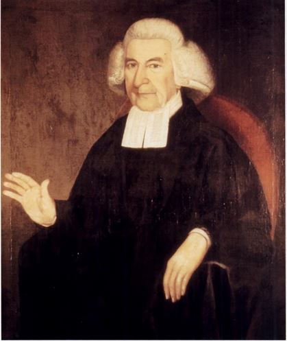 Ezra Stiles by Reuben Moulthrop